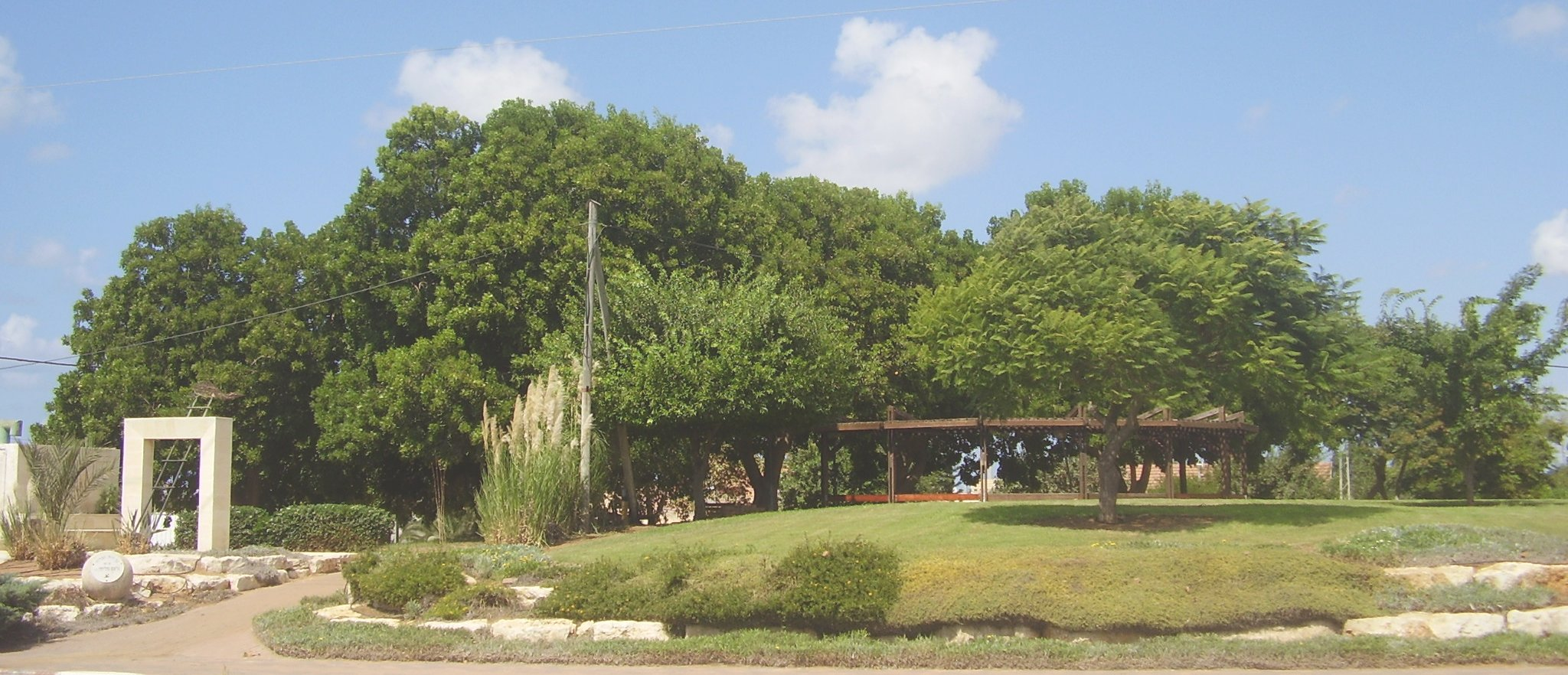 The Noam Mlichi memorial gardan at the entrance to Moshav Ge'ule Teman in Israel